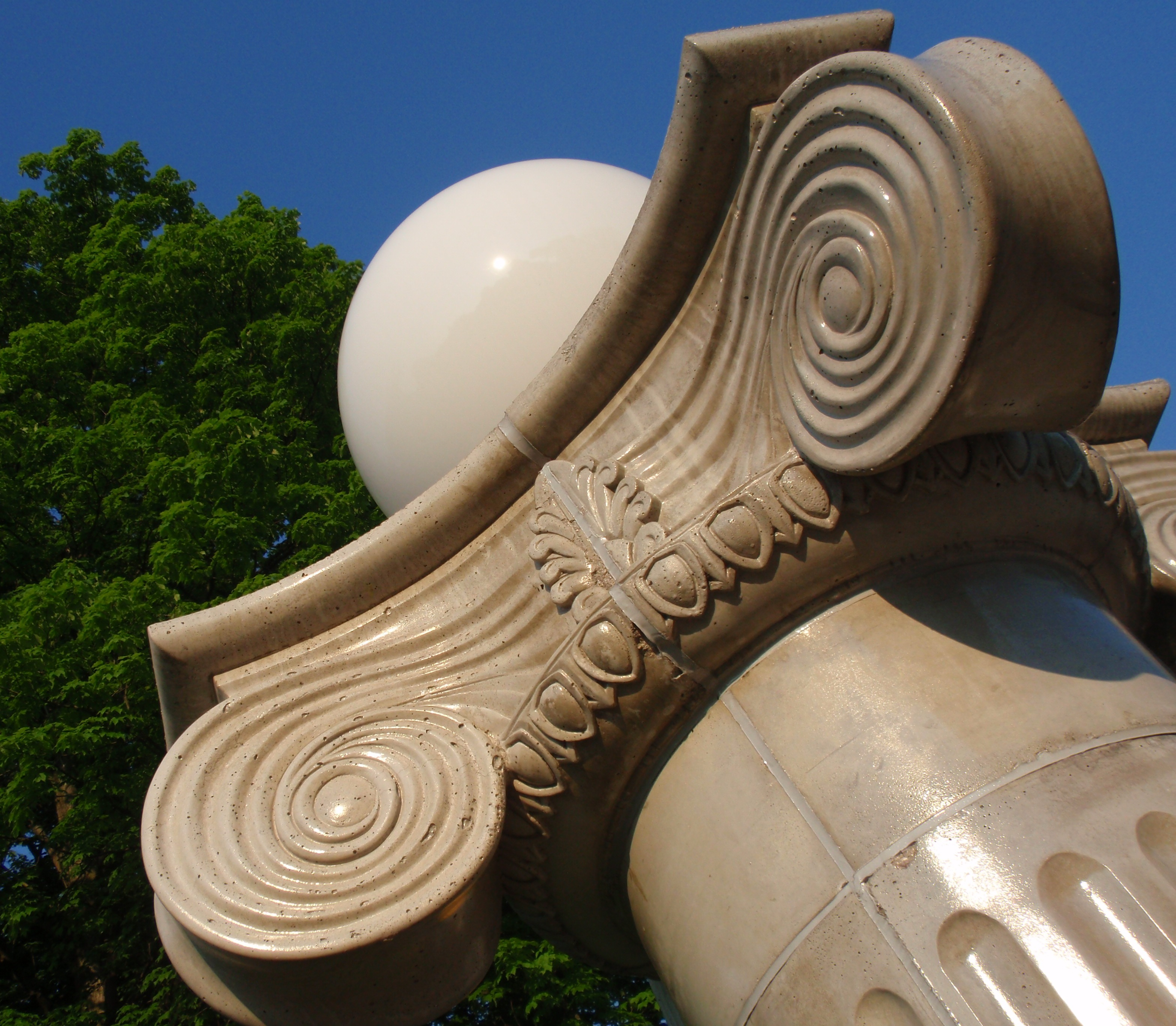 Fairmont State University - Fairmont, WV